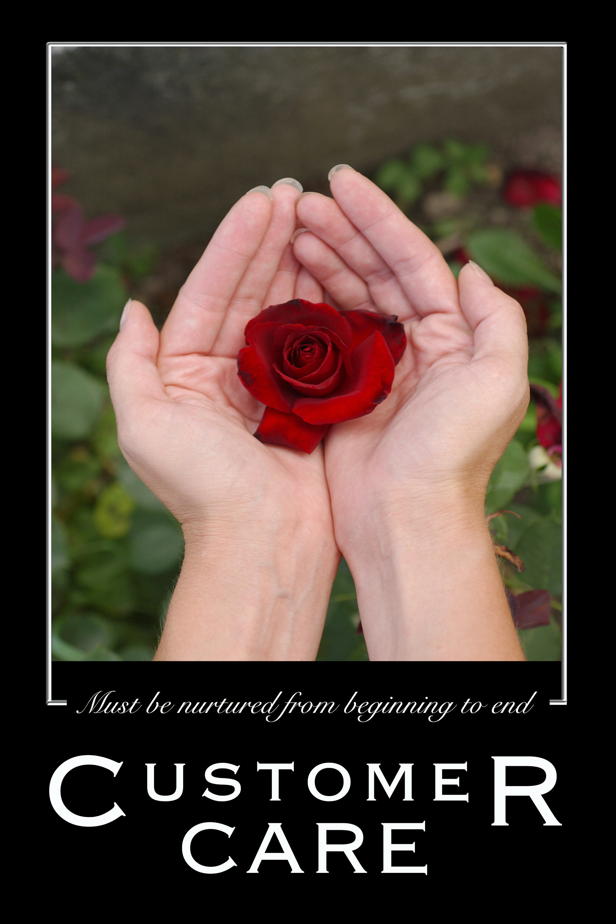 "Customer Care," a 20x30-inch inspirational color poster photograph of two hands cradling a rose, created by the 31st Communications Squadron (CS), Visual Information, Aviano Air Base (AB), Italy. Subtitle:"Customer care must be nurtured from beginning to end."